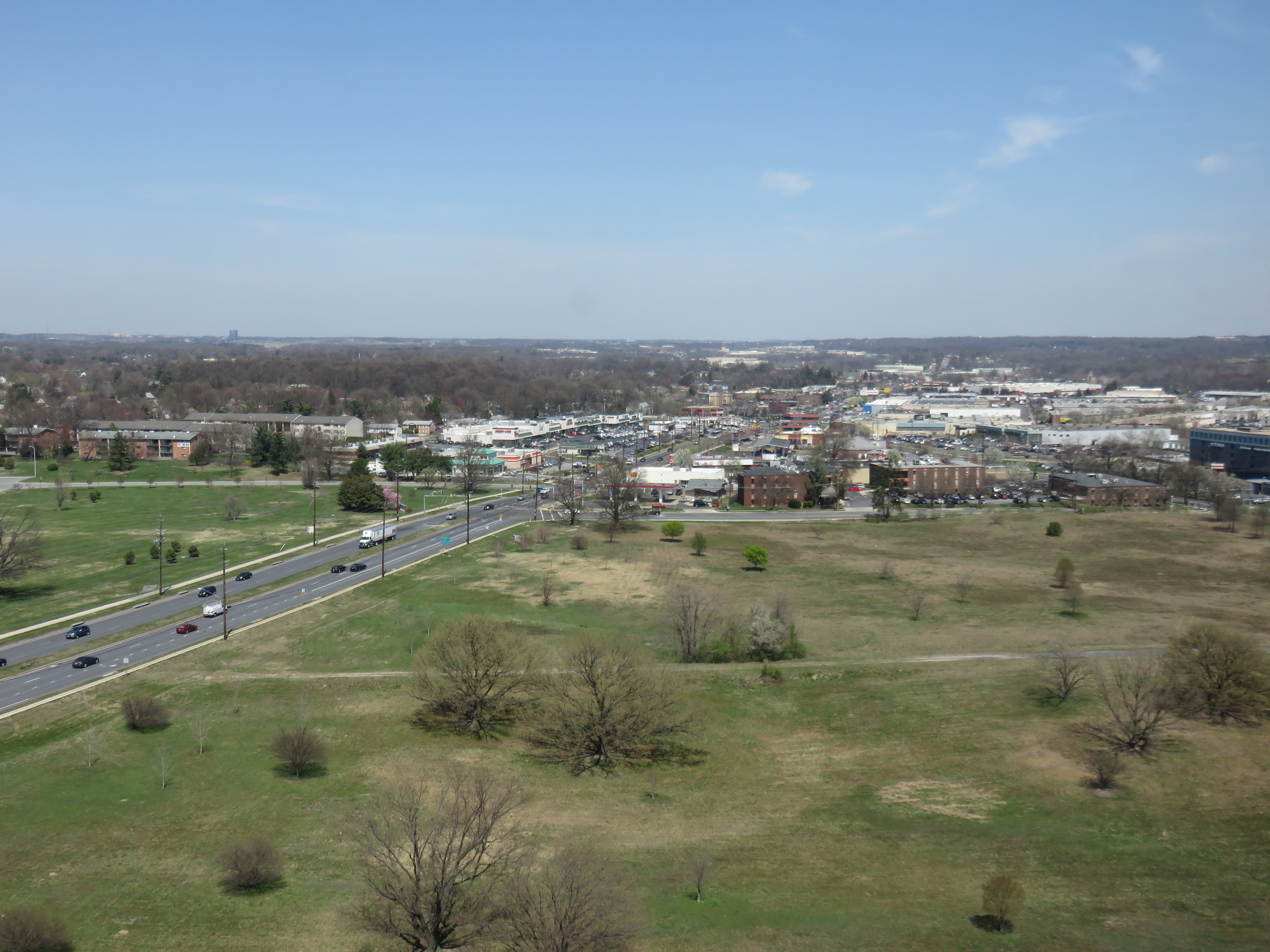 Beltsville, Maryland viewed from the top floor of the United States National Agricultural Library in 2018